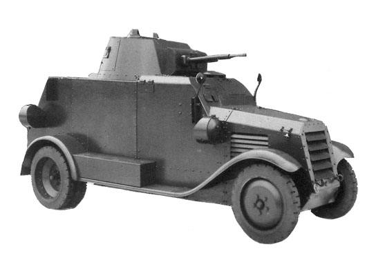 Swedish Landsverk L-185 armoured car